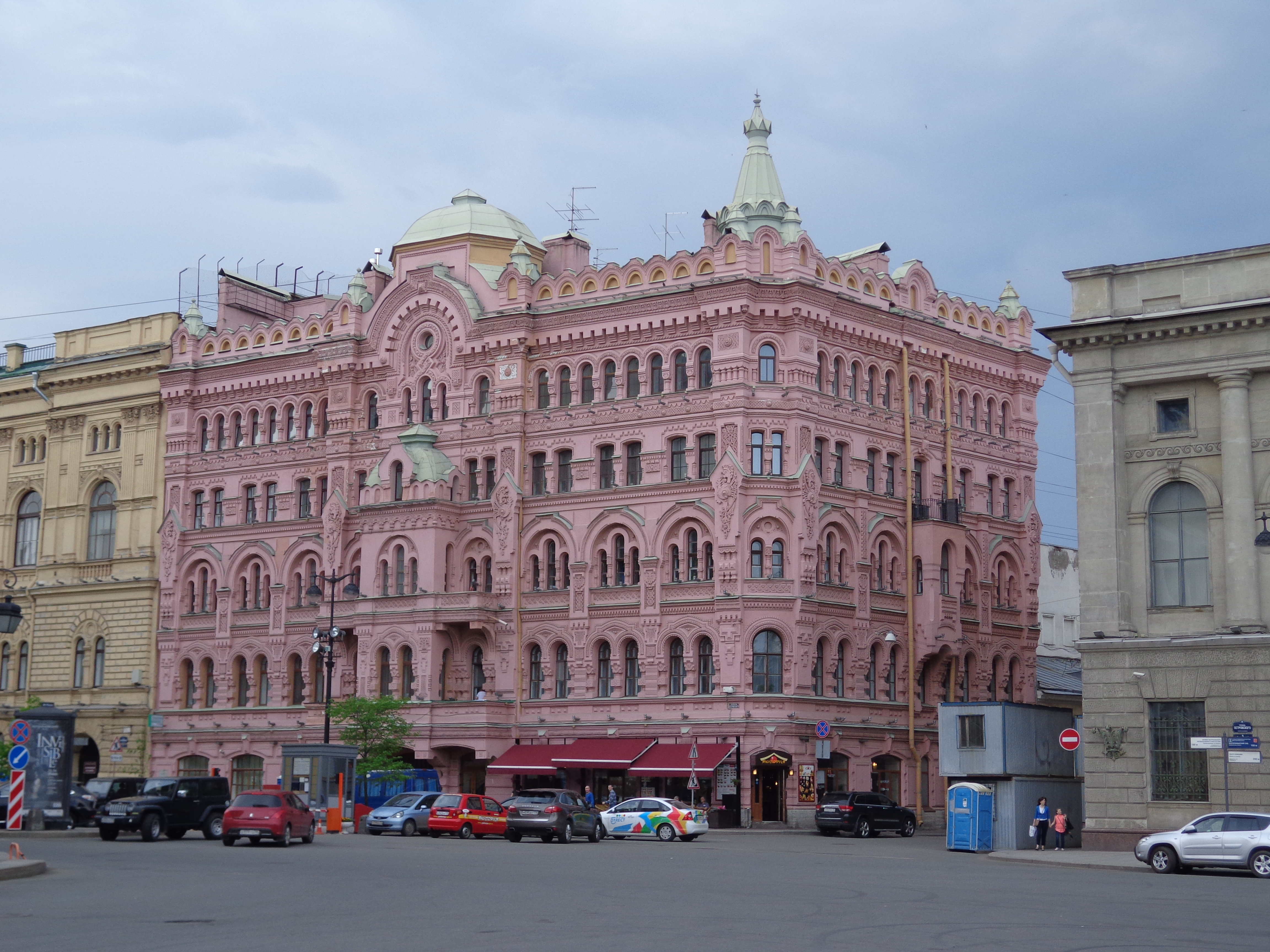 House of Nikolay Basin (Ostrovsky Square), Saint-Petersburg